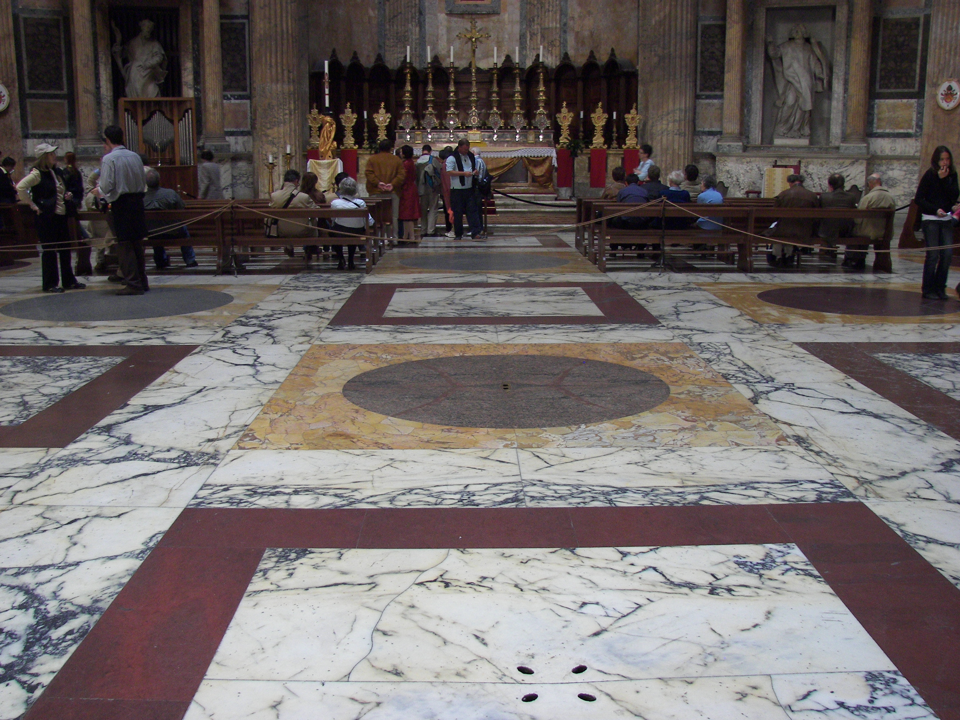 Floor drainage area beneath the dome opening of the Pantheon in Rome.